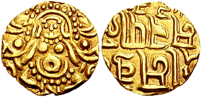 Chaulukyas of Anahillapataka King Kumarapala Circa 1145-1171. V Dinar (19mm, 3.88 gm). Crude seated Lakshmi / Legend.